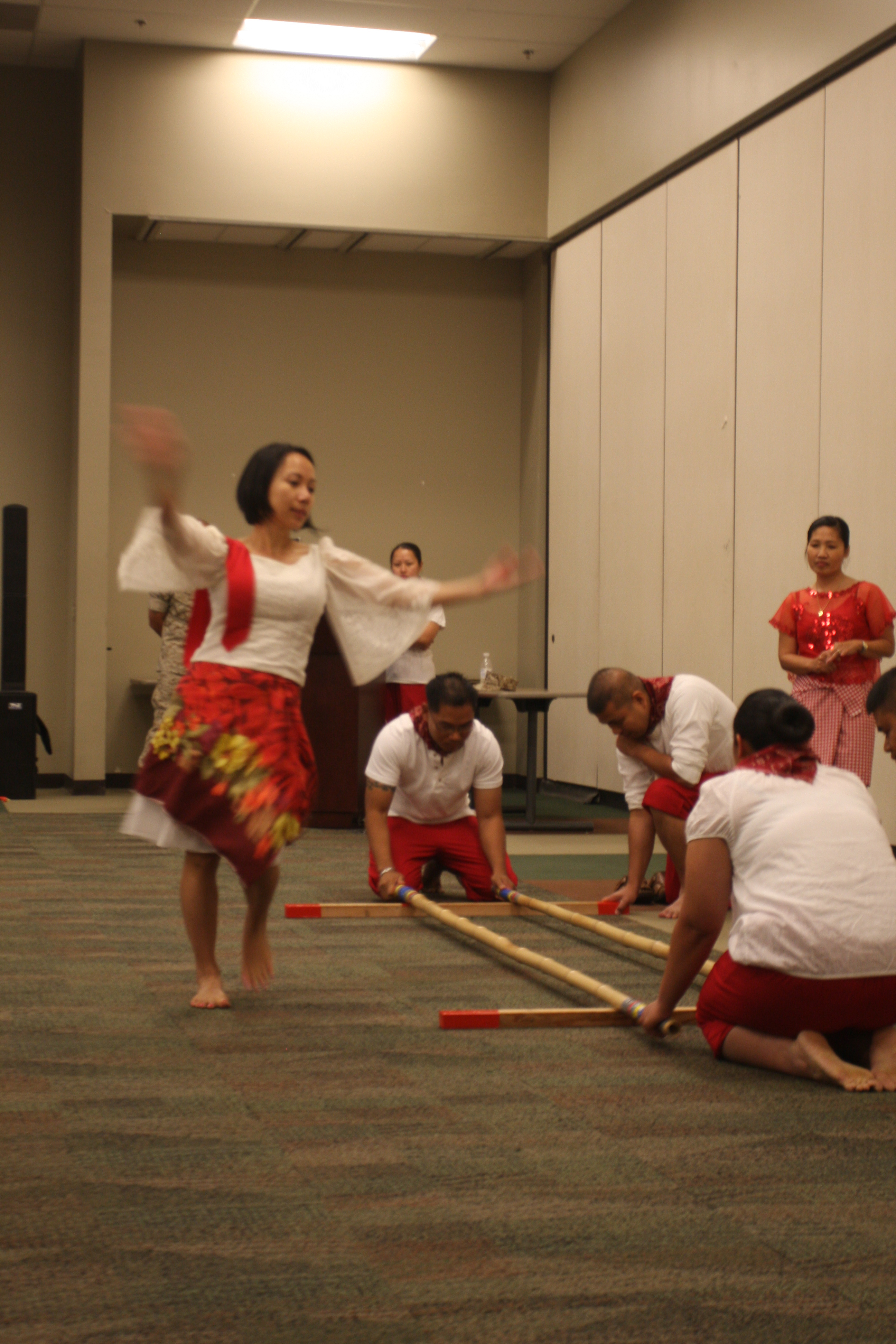 The Naval Hospital Twentynine Palms Pacific Islander Dance Group dance a traditional Philippine dance with bamboo poles at the Asian Pacific American Heritage Month ceremony May 12. Two sailors moved the poles while one danced around them.